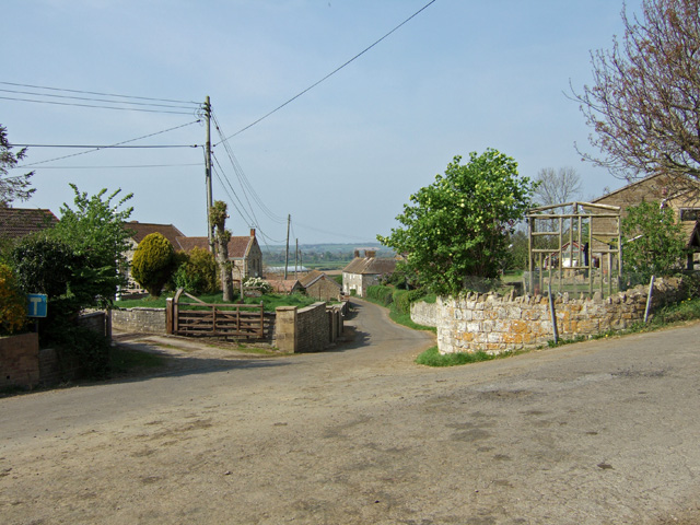 Adber View from the Rimpton road.